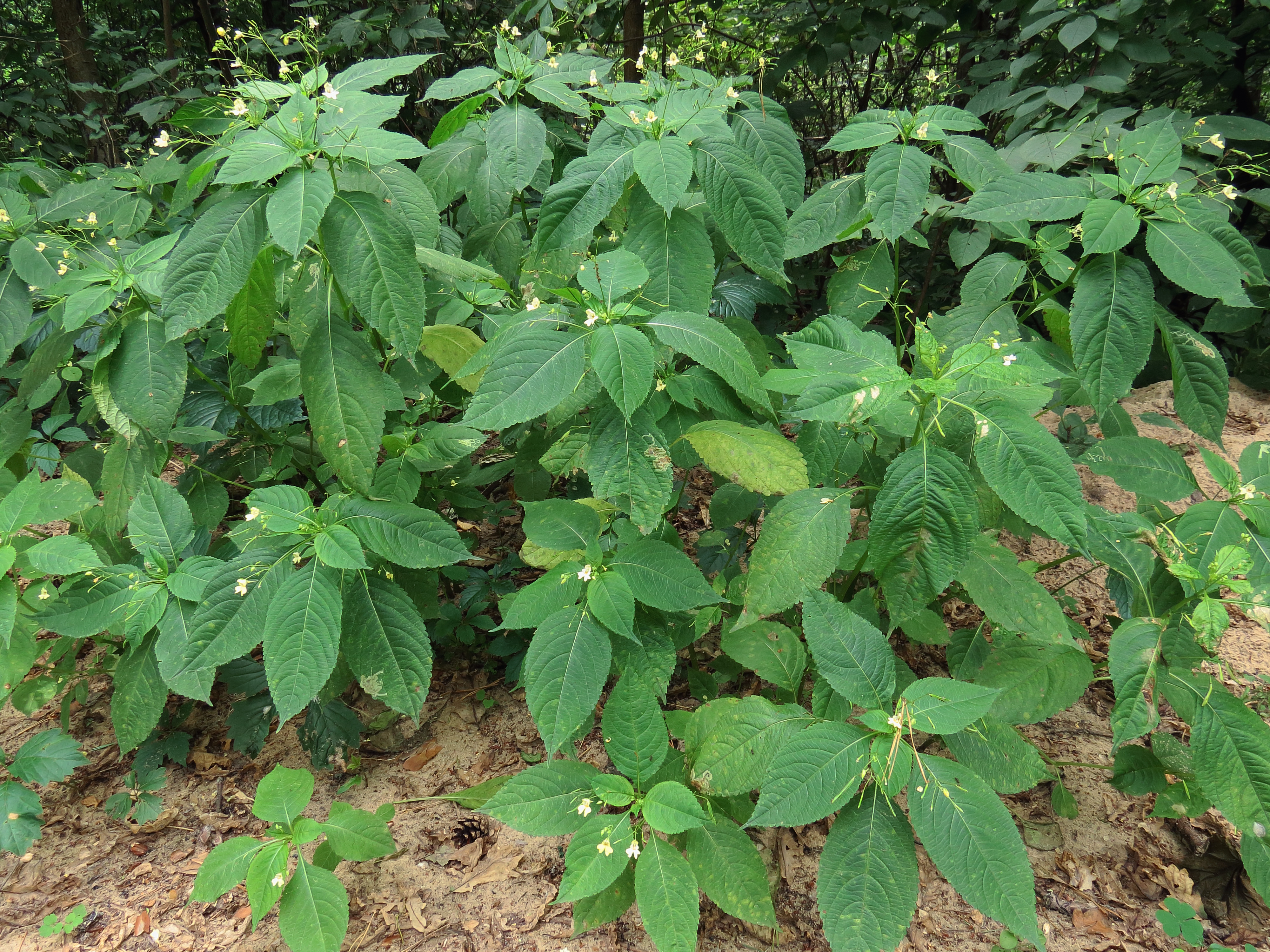 Impatiens parviflora in the forest near Kotsyubynske, Kiev, Ukraine